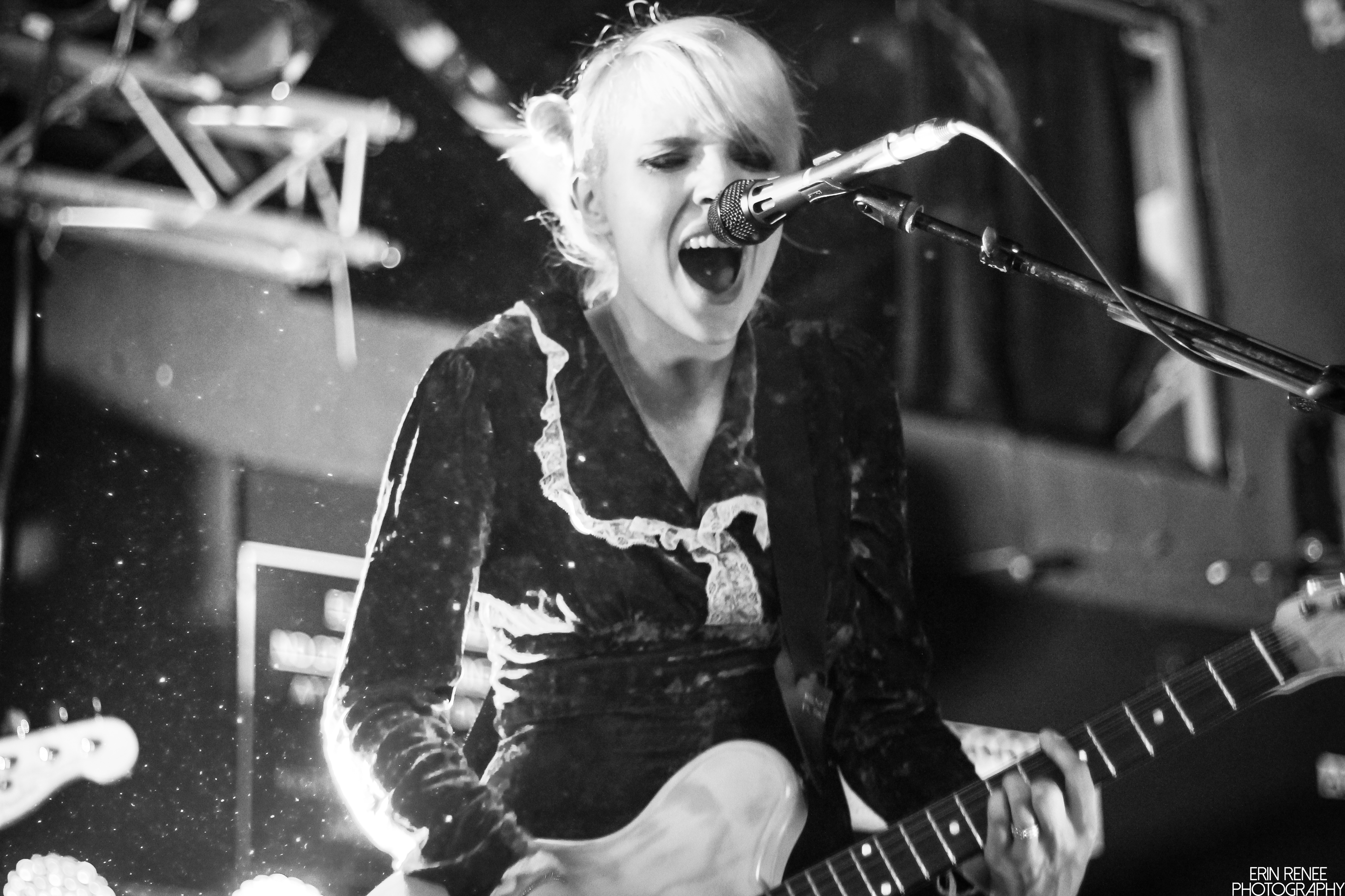 Sherri DuPree-Bemis performing live with Eisley in Boston, MA on April 7, 2014